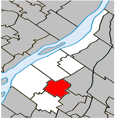 Location of Saint-Amable, Quebec within Lajemmerais Regional County Municipality.